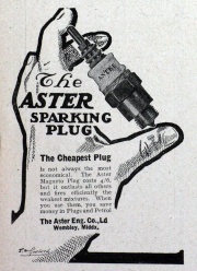 1910 advertisement for Aster Wembley spark plug, designed for publication in consumer press and trade journals throughout the UK and worldwide.